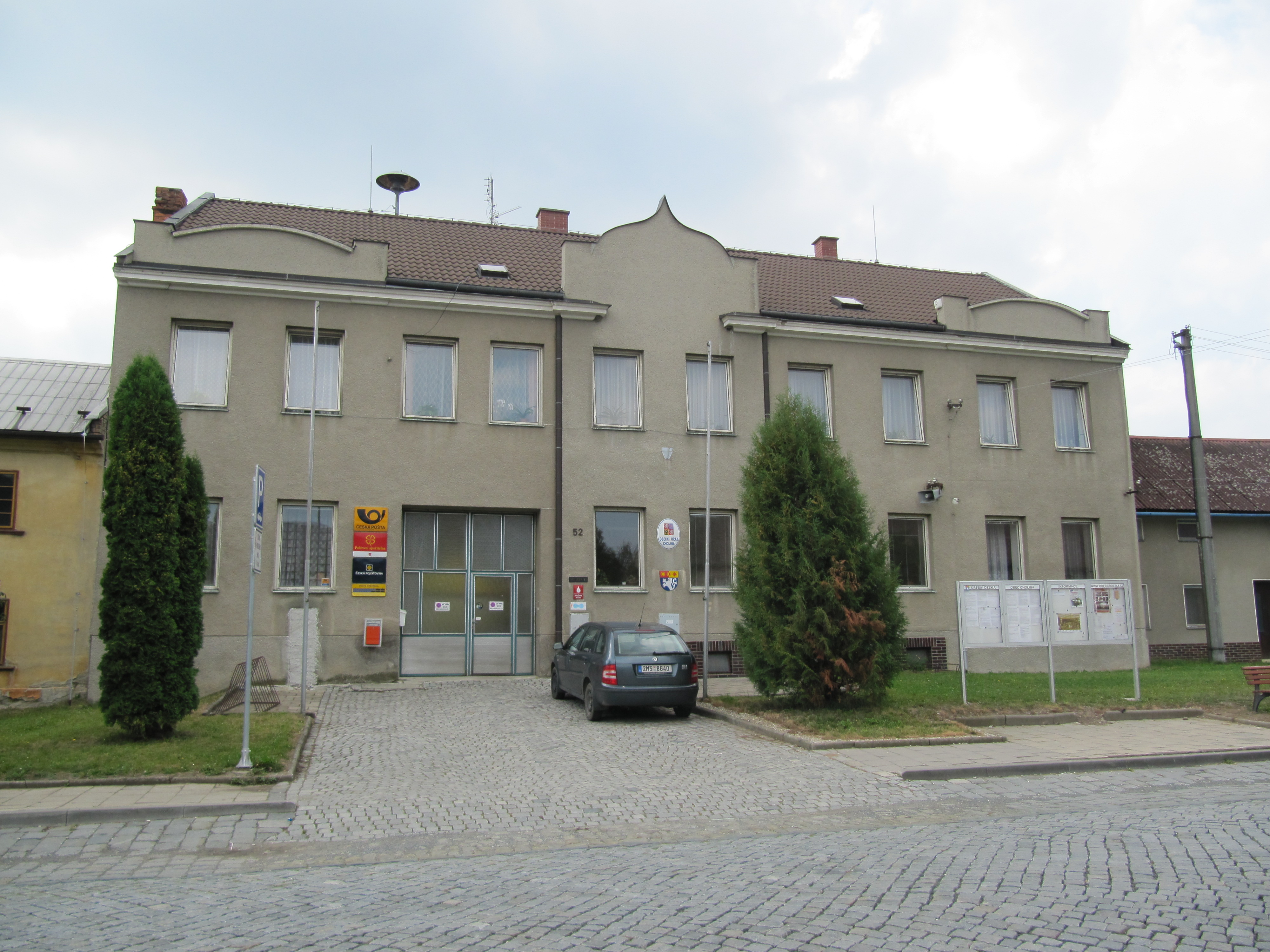 Cholina in Olomouc District, Czech Republic. Municipal office.